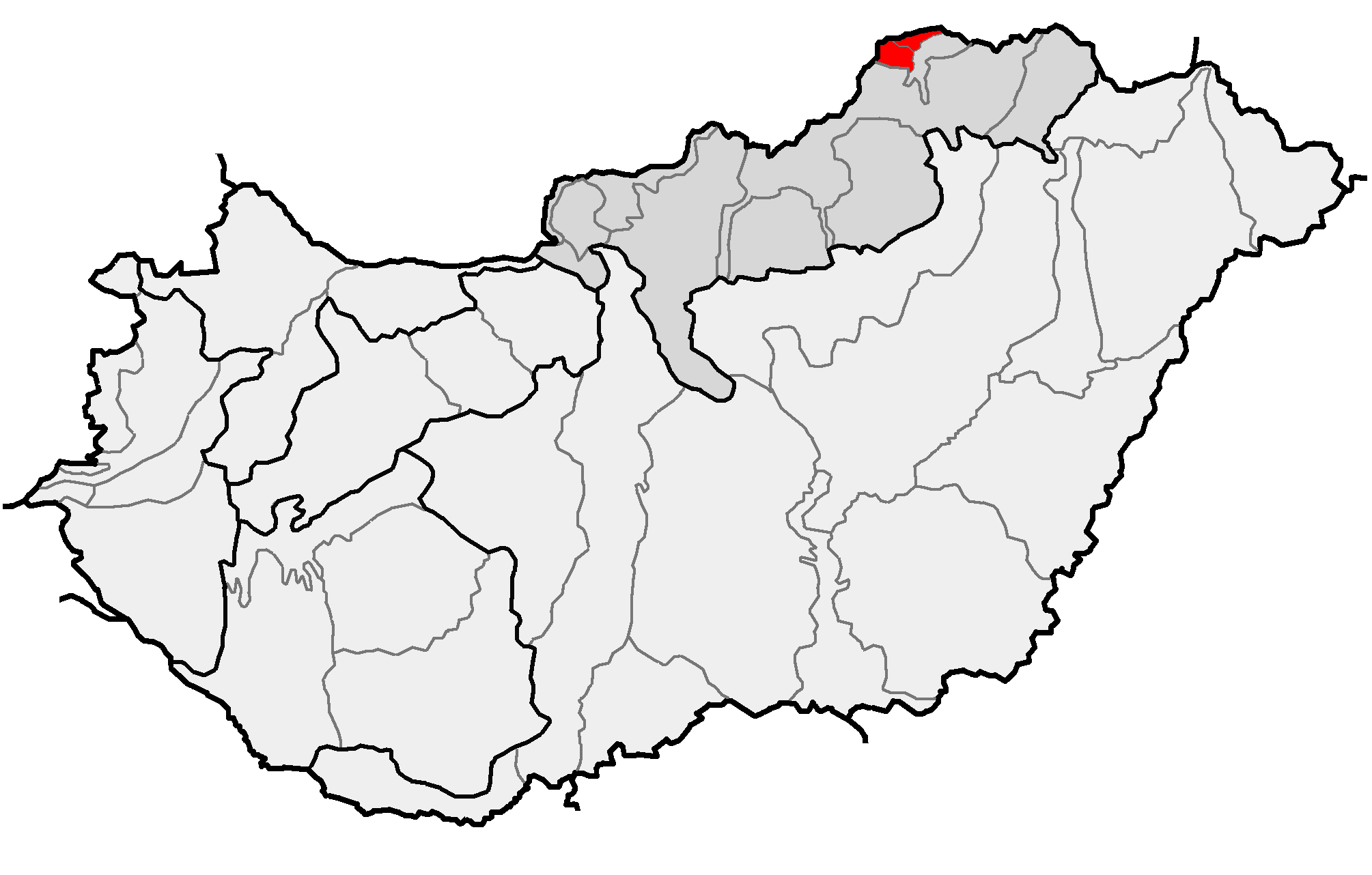 Location of geographical subregion of Aggteleki-karszt (red) and macroregion of Északi-középhegység (gray) within subdivisions of Hungary.